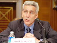 Photo of Jared Bernstein testifying to the US Senate on May 26, 2005.